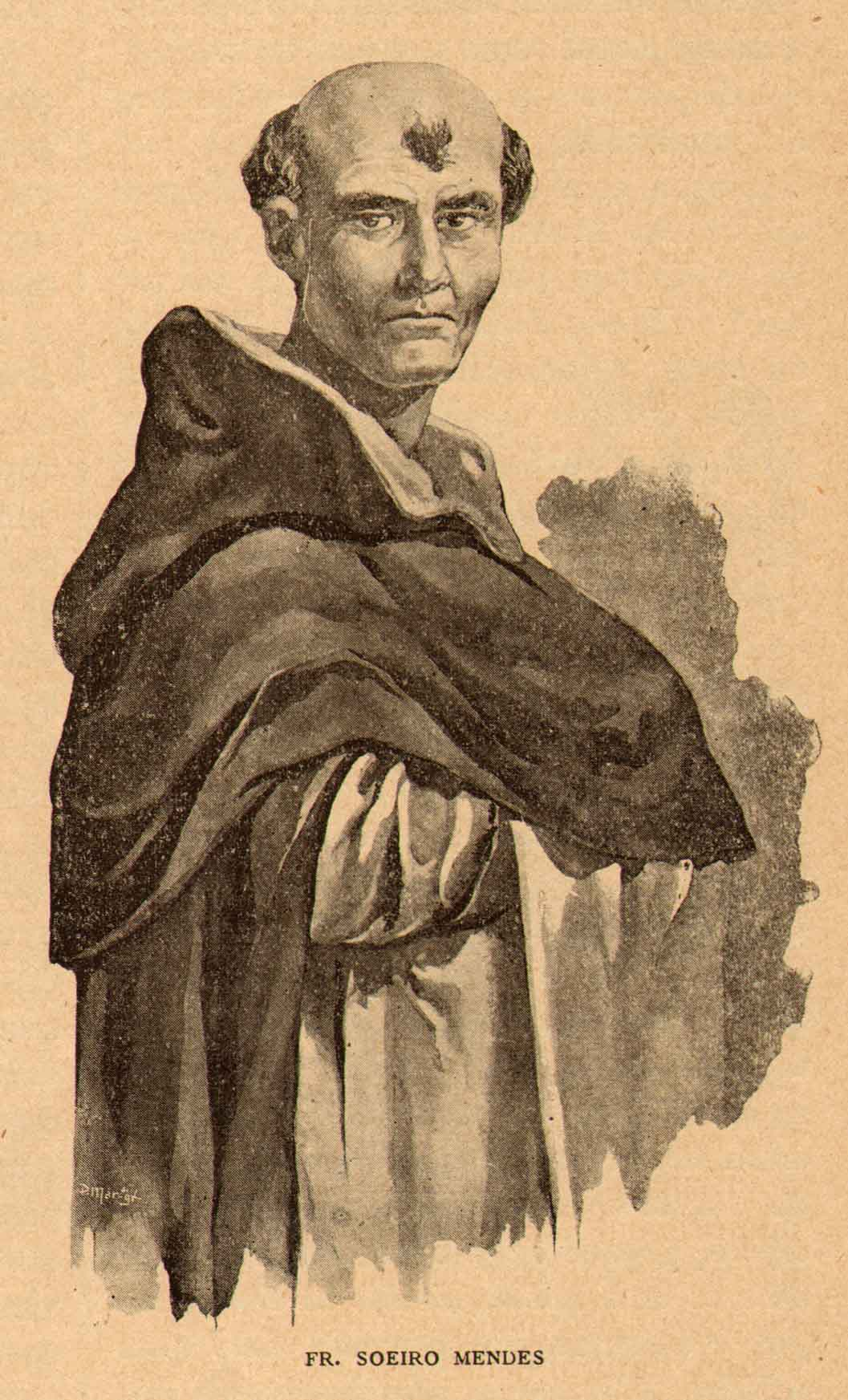 Illustration by Alfredo Roque Gameiro in the book História de Portugal, popular e ilustrada, by Manuel Pinheiro Chagas